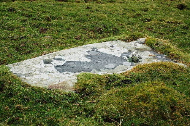 Cup-Marked Stone At Kilchiaran A cup-marked stone lying outside the chapel at Kilchiaran. Stones such as these date from the Bronze Age (2,500 - 600BC). One of the cup-marks, on the right-hand side of this shot, has been completely worn through the stone. (Information source: "Islay" by Norman S Newton).